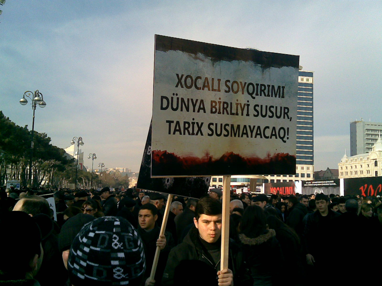 Khojaly 20